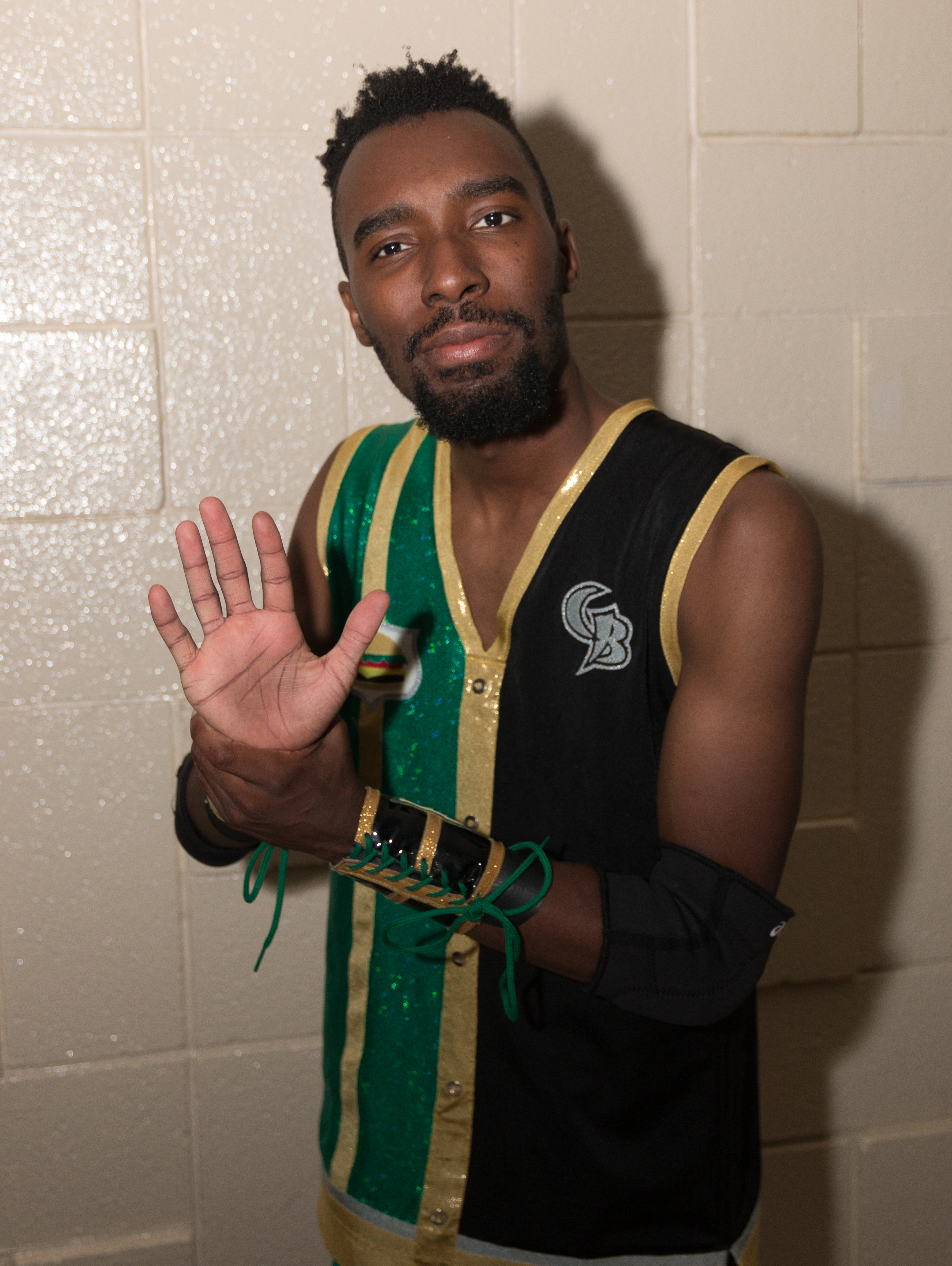 Independent wrestler Cheeseburger posing at Alpha-1 Wrestling's "The Purge" show in Hamilton, ON